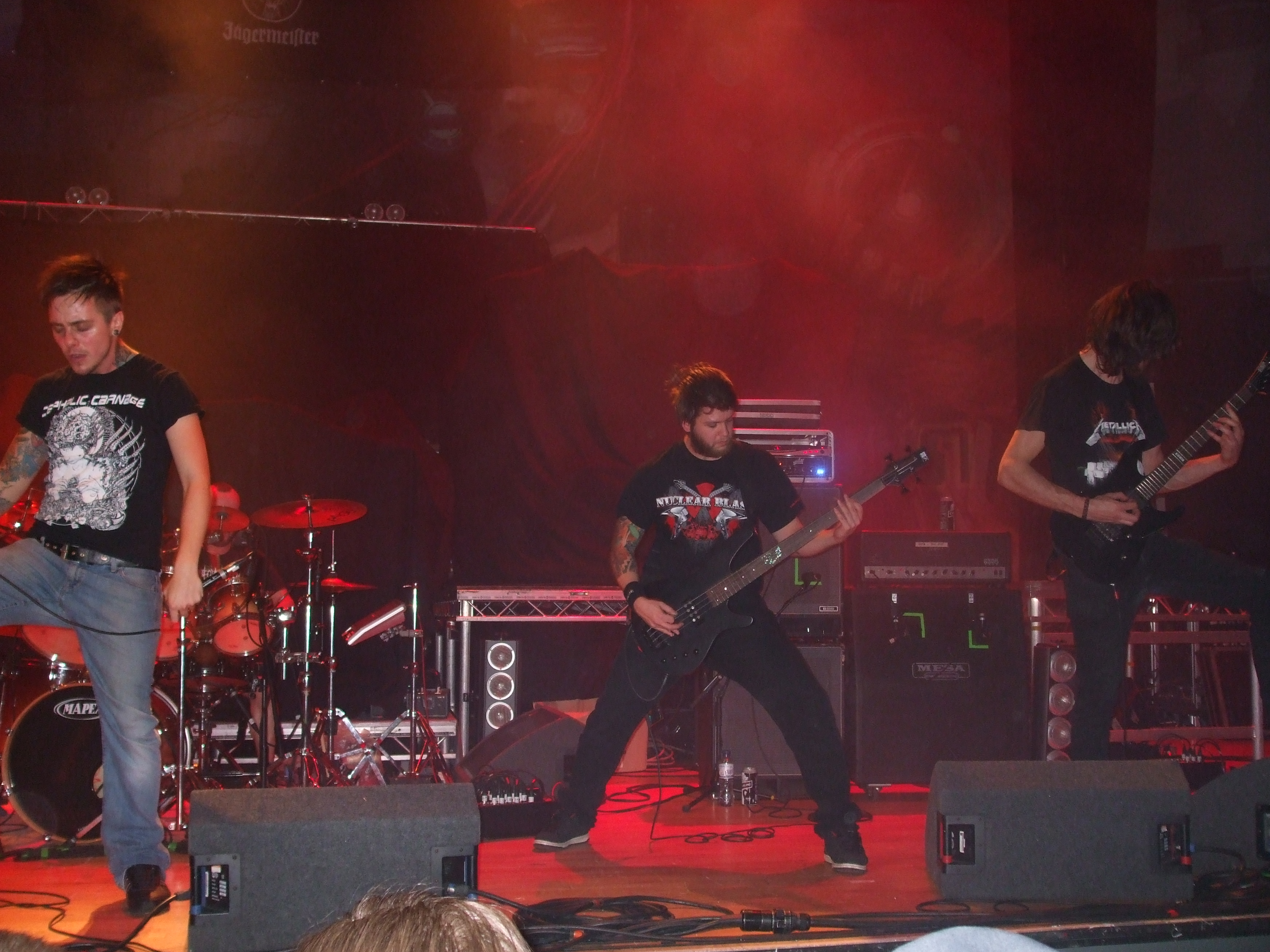 Sylosis performing at the Victoria Hall, Hanley on December 1st 2009.